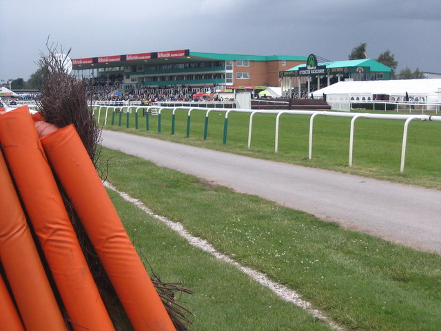 Uttoxeter racecourse The two stands at Uttoxeter rececourse on a June Sunday just before the first race. The one furlong marker can just be seen beyond the parts of jumps which are resting on the left. Just after this photograph was taken, the heavens opened!